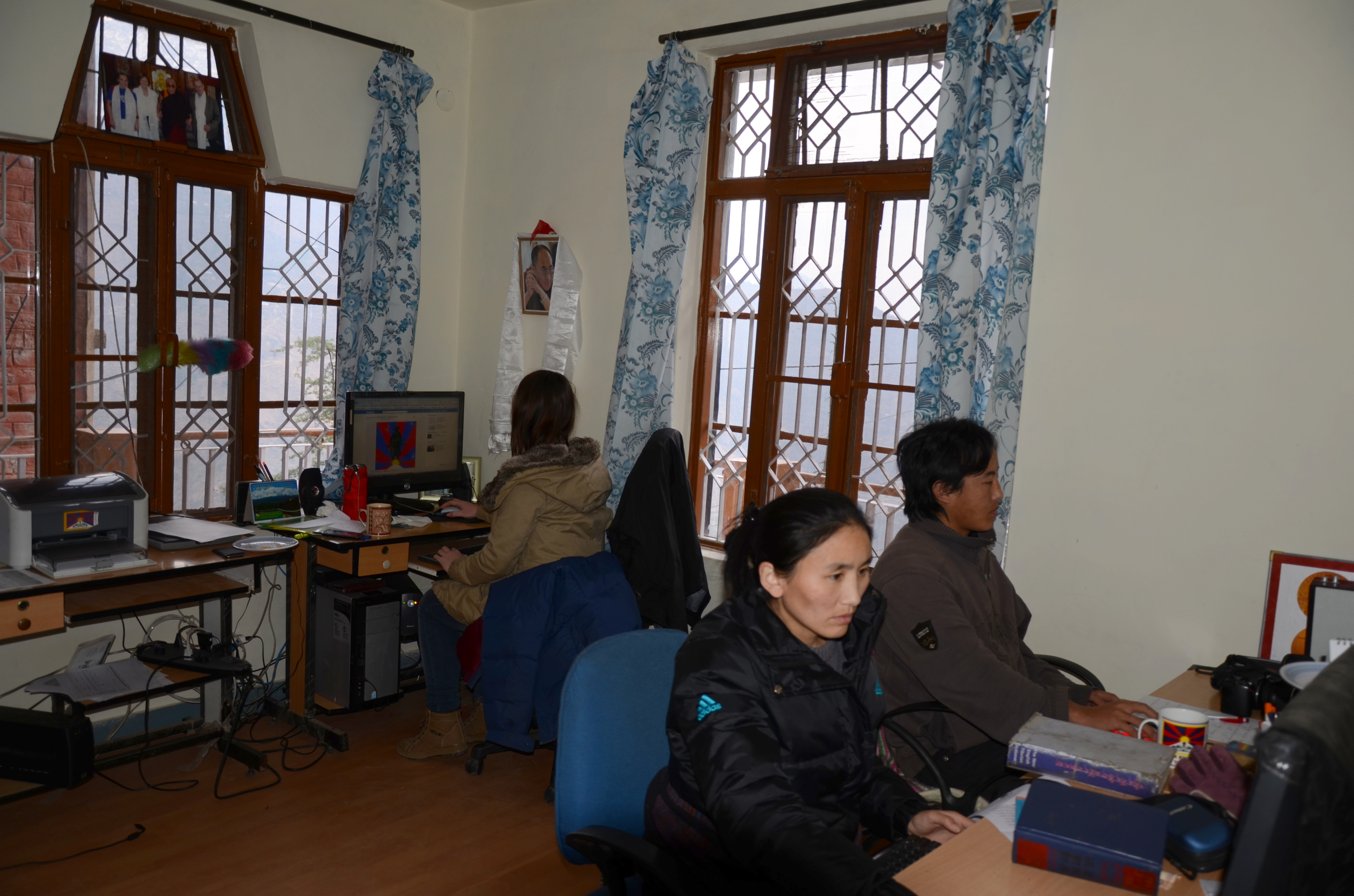 The Tibet Post International office headquarters in Dharamsala, Himachal Pradesh, India